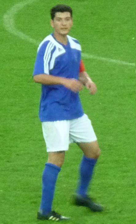 Anel Raskaj as team captain for Kosovo national football team in 2010